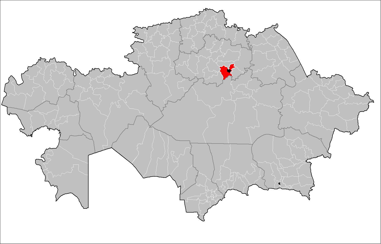 Map of the rayons of Kazakhstan. Created by Rarelibra 16:49, 3 August 2007 (UTC) for public domain use, using MapInfo Professional v8.5 and various mapping resources.